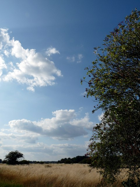 Trees at Wanstead Flats, in the southern-most portion of Epping Forest in eastern London.